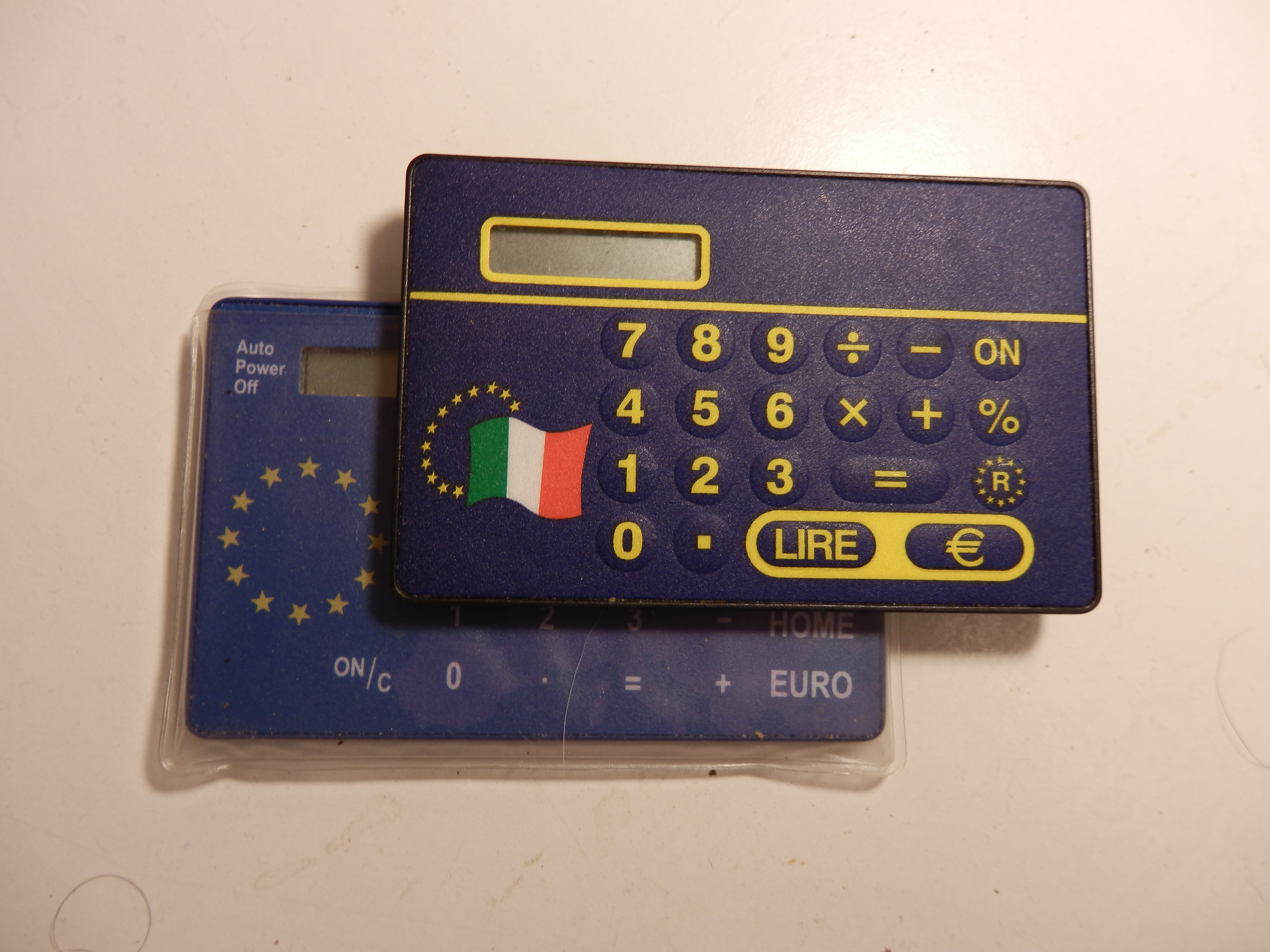 An Italian and a generic euro calculators, January 2002